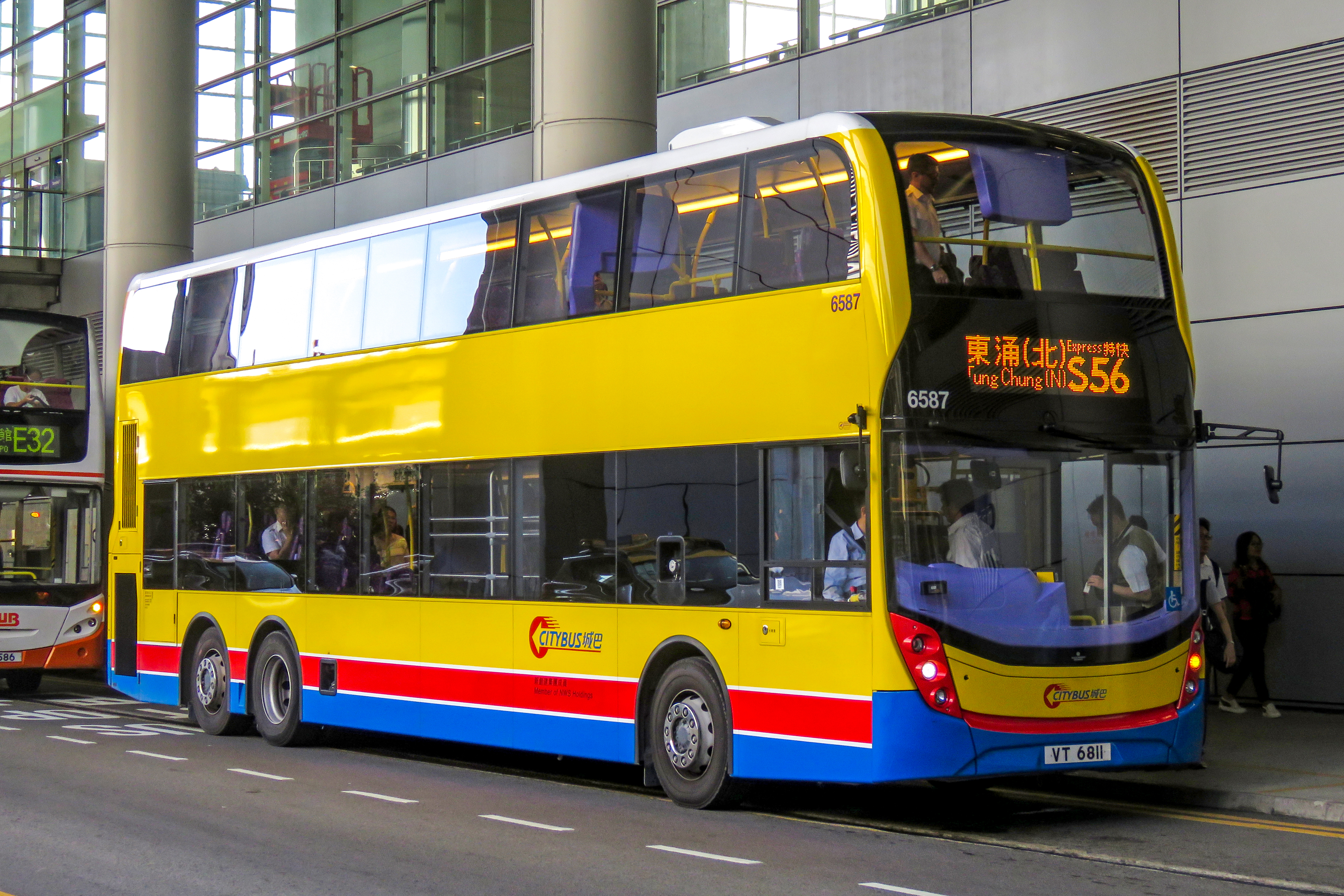 S56 again, emphasizing "Tung Chung North". This 6587 is quite fresh without advertisements, but I don't know if it had been on W1 before.